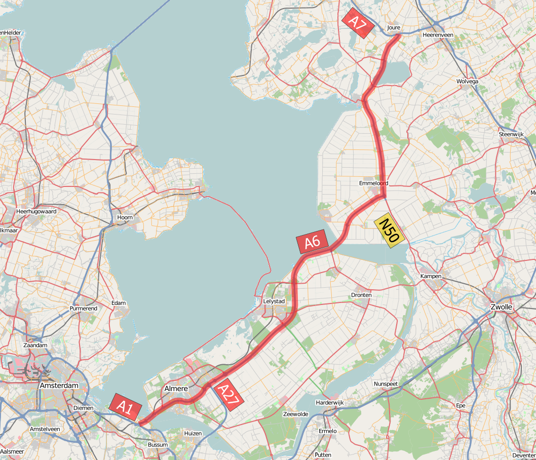 Map of motorway ('rijksweg') A6 in the Netherlands. The background map is taken from , the route was drawn on this by me.